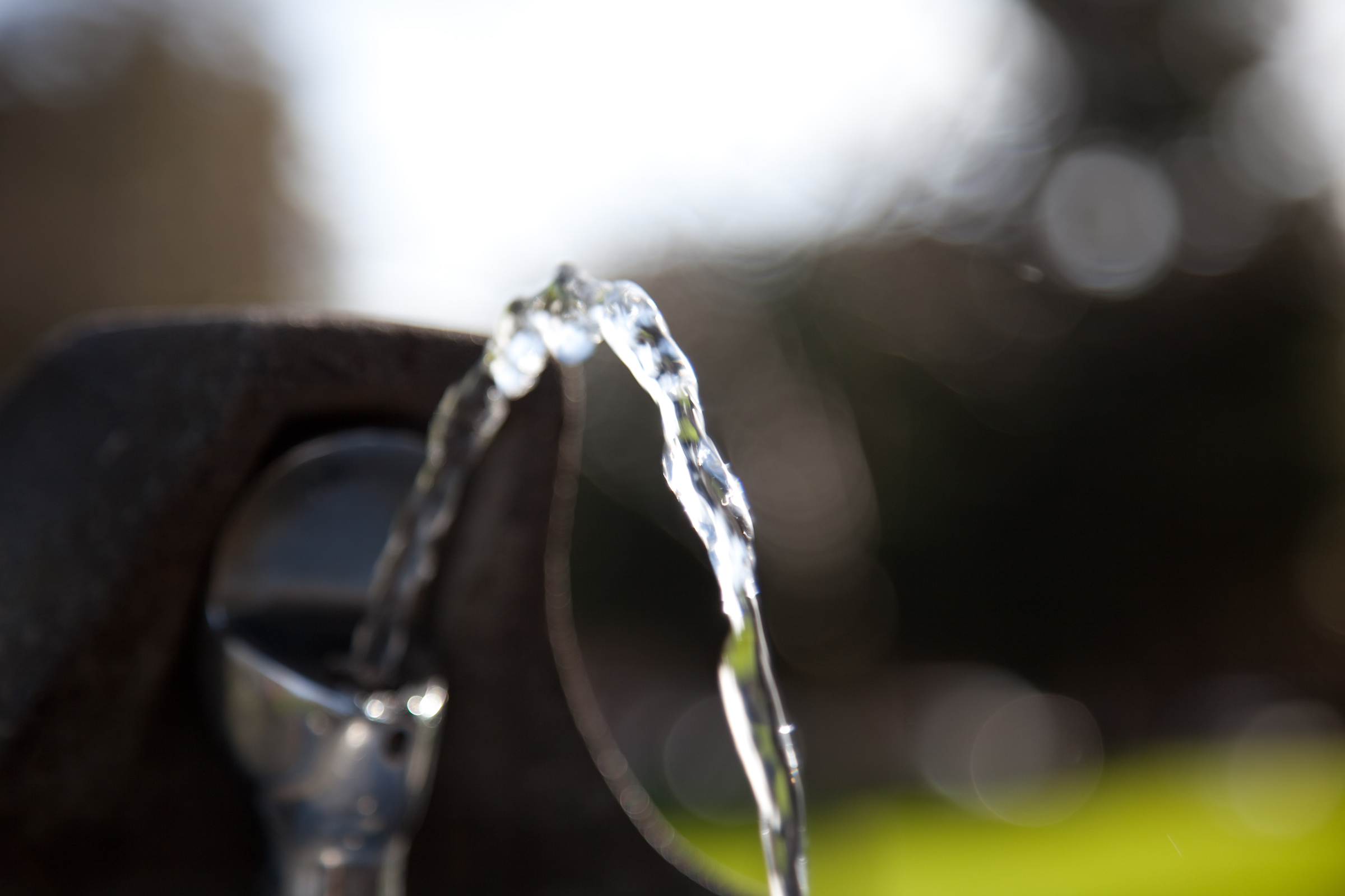 water